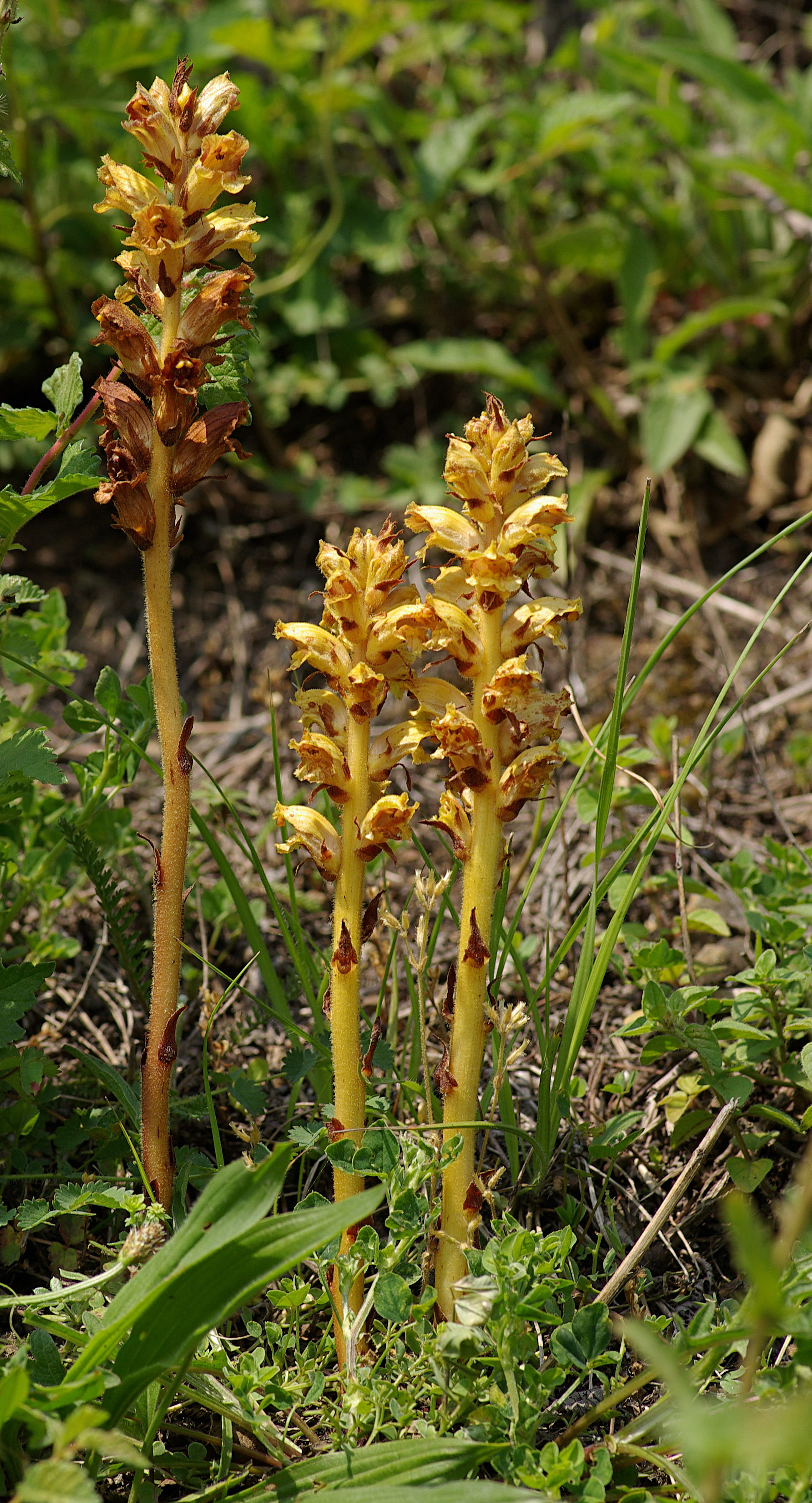 Orobanche minor in Normandie France